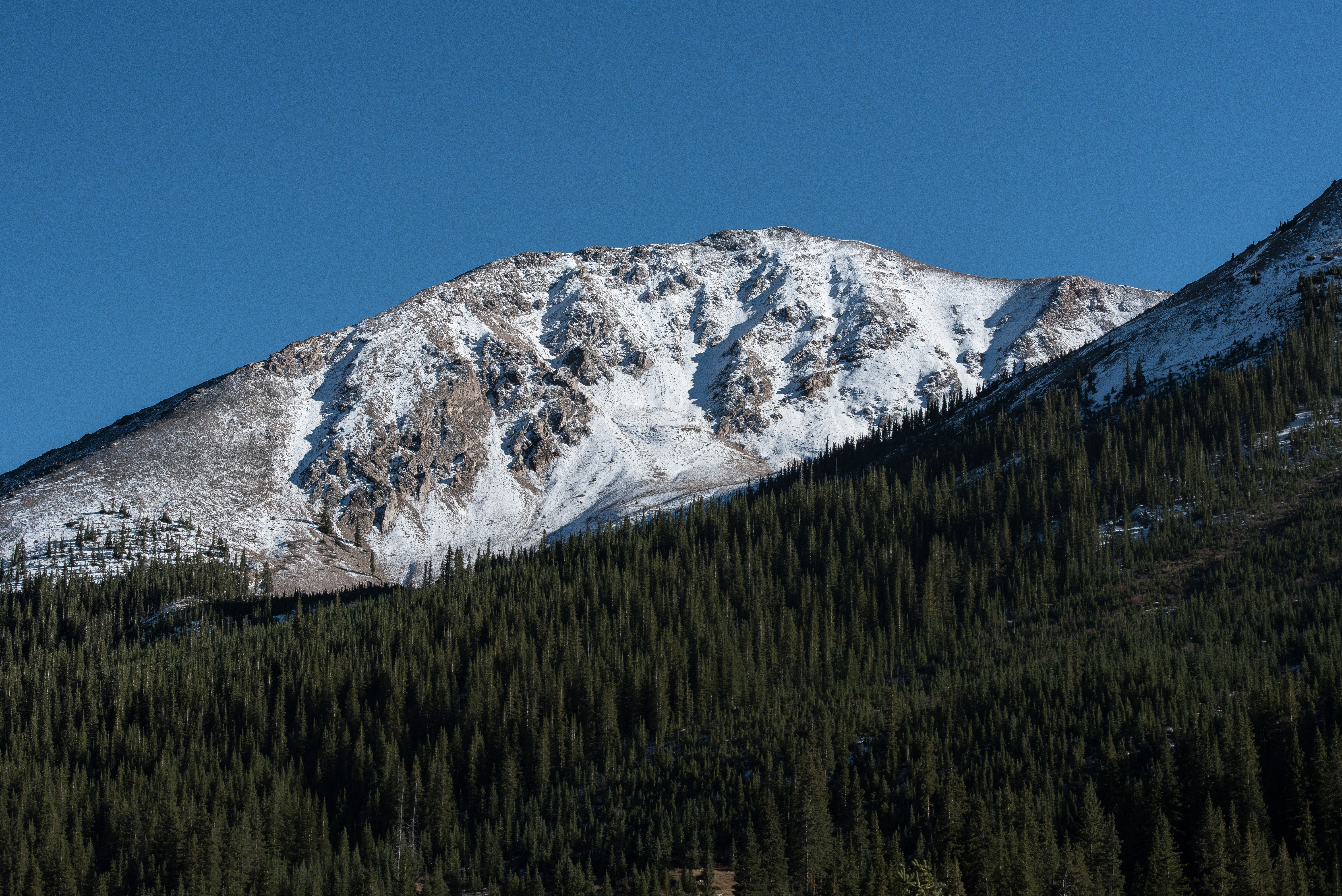 Aspen, United States